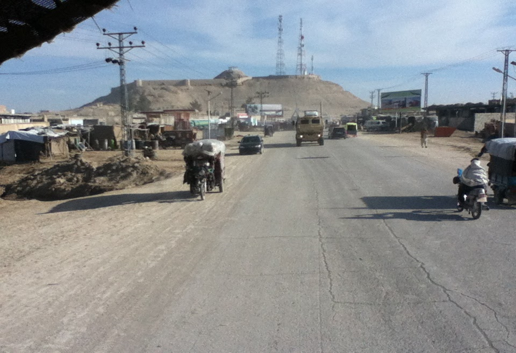 The Qalat Fortress in Qalat, Zabul Province, Afghanistan circa spring 2013. The picture was taken from a U.S. military vehicle on patrol driving on highway 1.